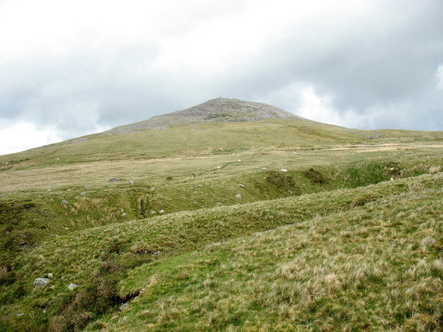 View across the incised Afon Ffrydlas towards Gyrn